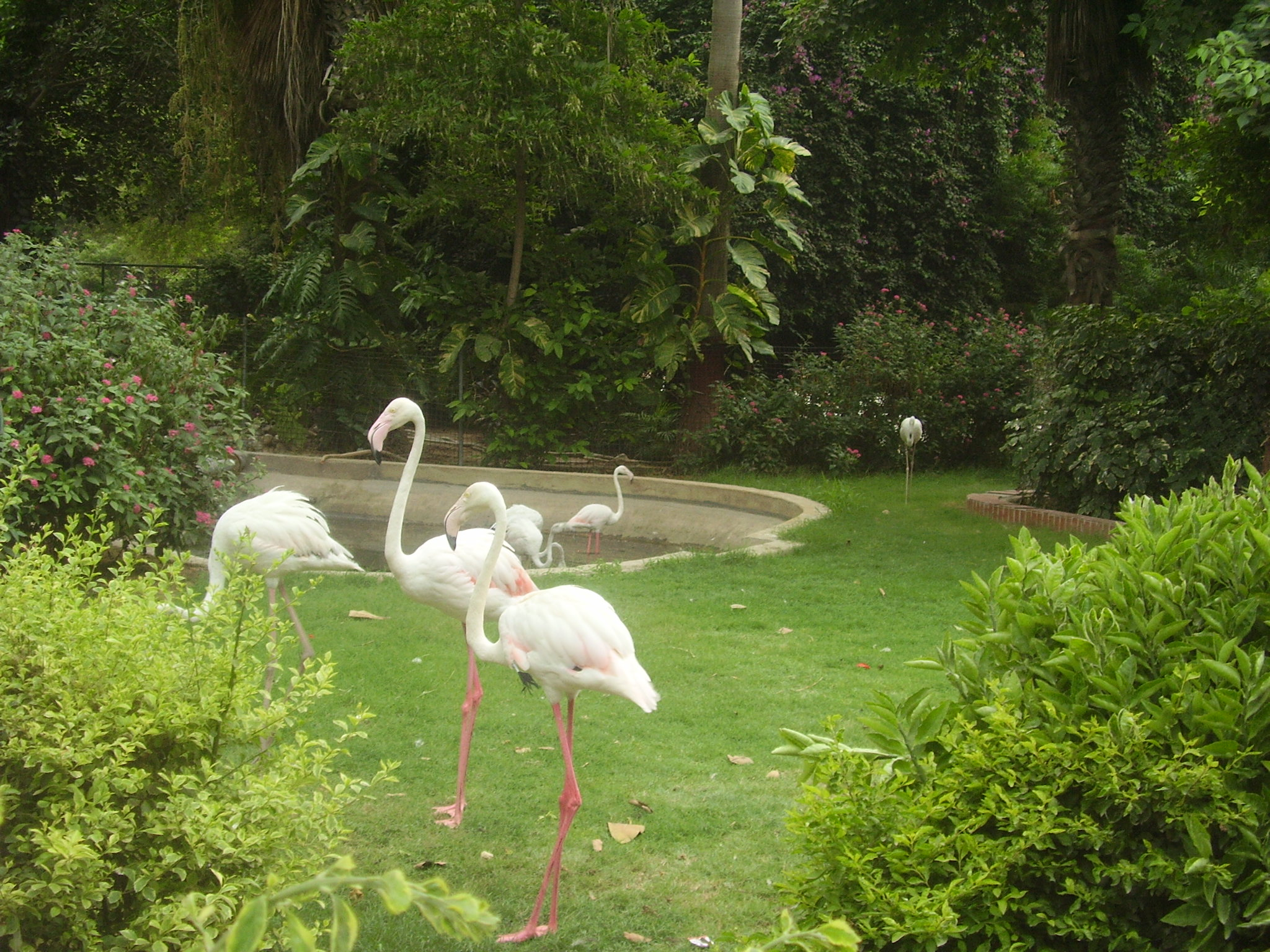 Flamingoes at Karachi Zoo